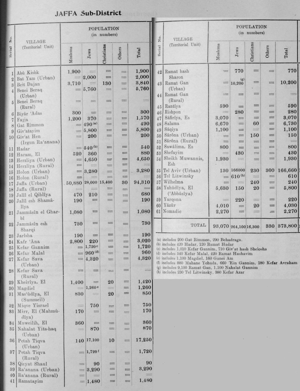 1945 Palestine Mandate Village Statistics